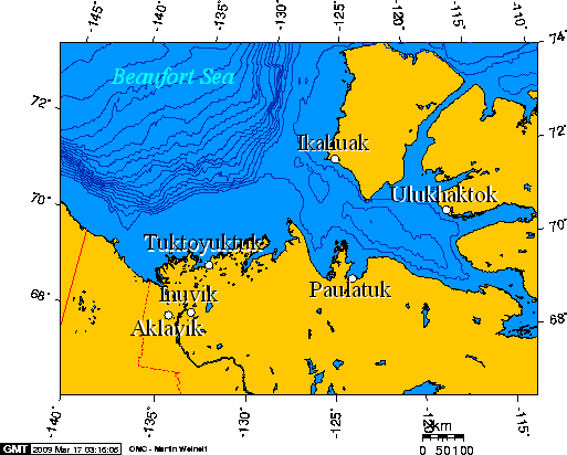 Inuvialuit communities This is a "Lambert Azimuthal" projection